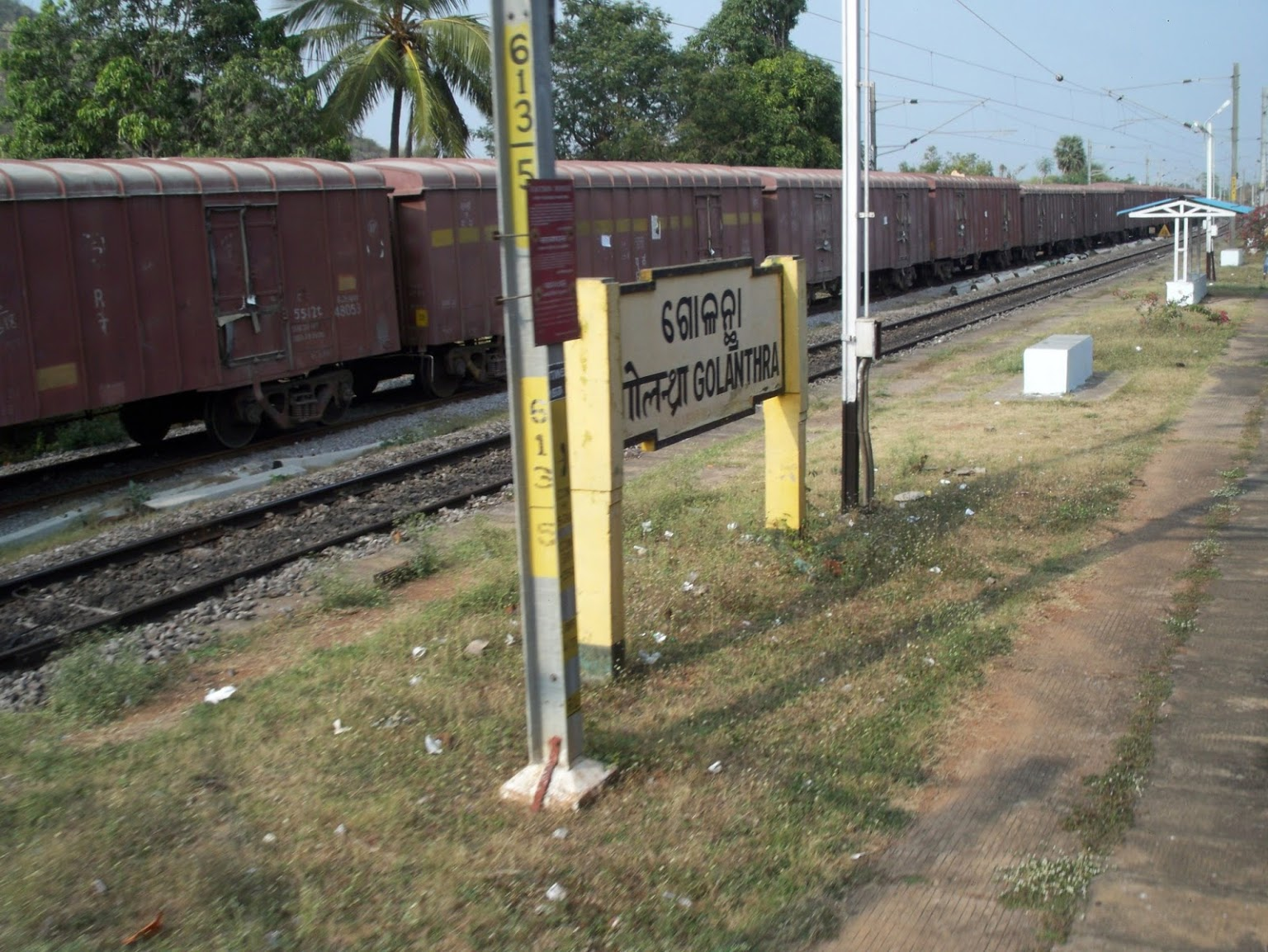 This is the Picture of Golanthra railway station